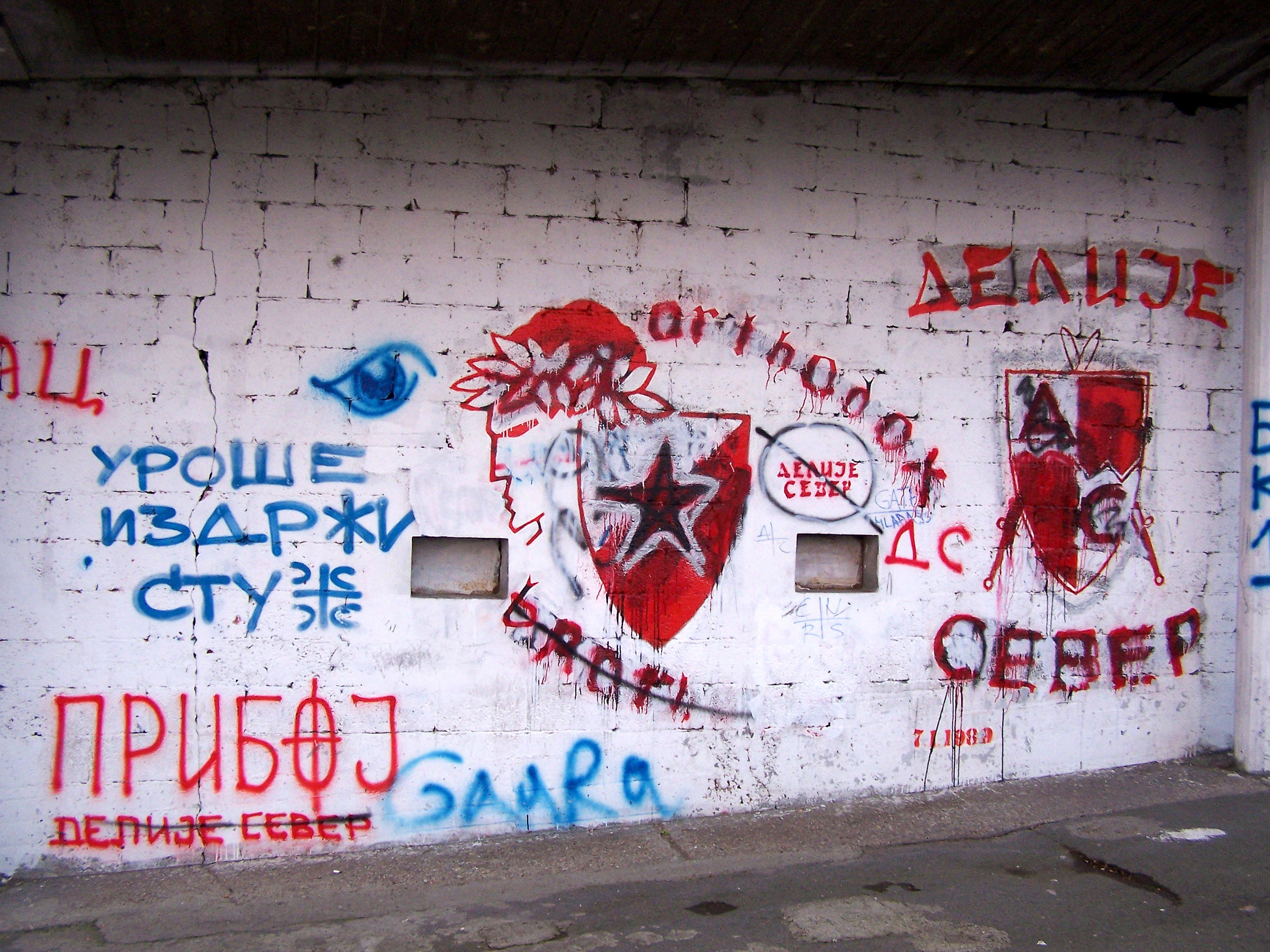 Mural featuring the brotherhood between Olympiacos FC and Crvena Zvezda fans at the Stadion Crvena Zvezda in Belgrade